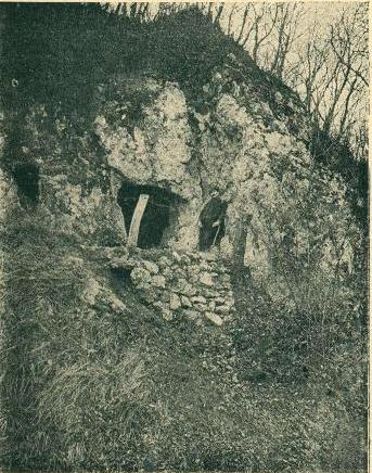 Entrance of the János-hegy Cave